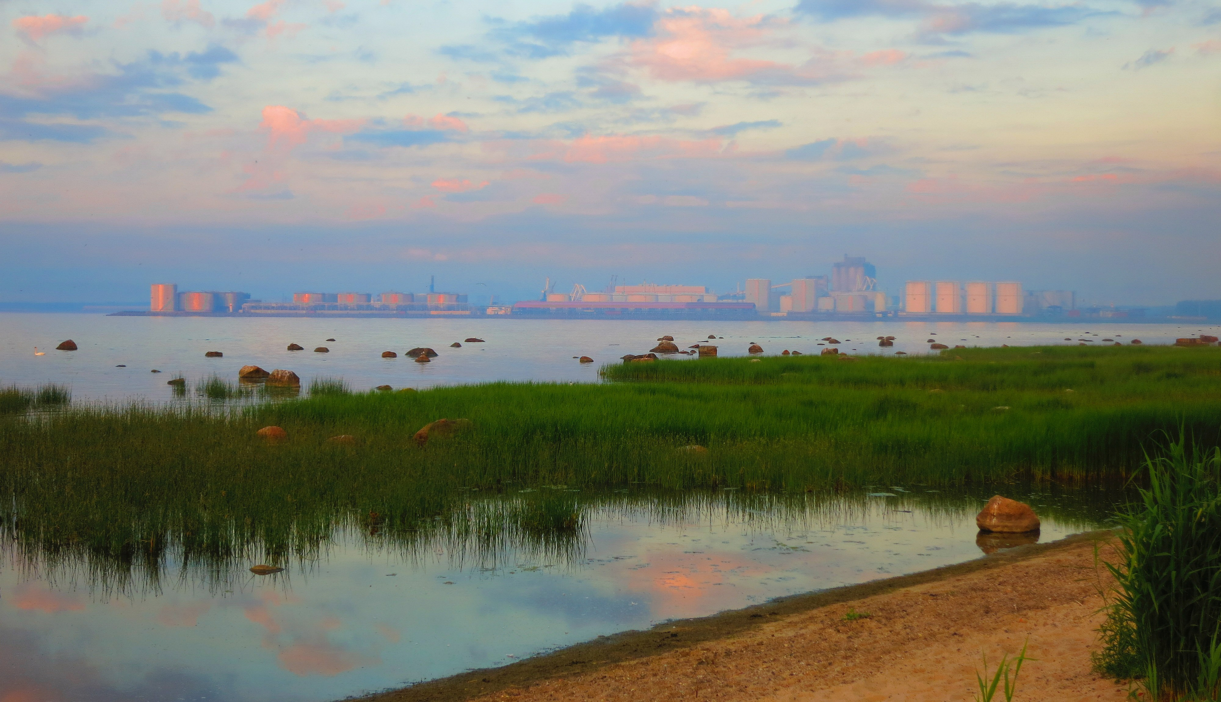 View from Randvere beach over Muuga Bay to southeast, towards sunset-lighted Muuga Harbour. (Viimsi Parish, Harju County, Estonia)